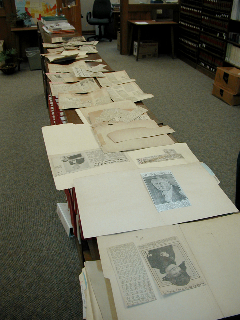 Newspaper / magazine clipping collection found in The Hill House, by Karen Neal, on the campus of The University of Montevallo. They had become exposed to water, and were turned over to Carey Heatherly for inspection and treatment for water damage.